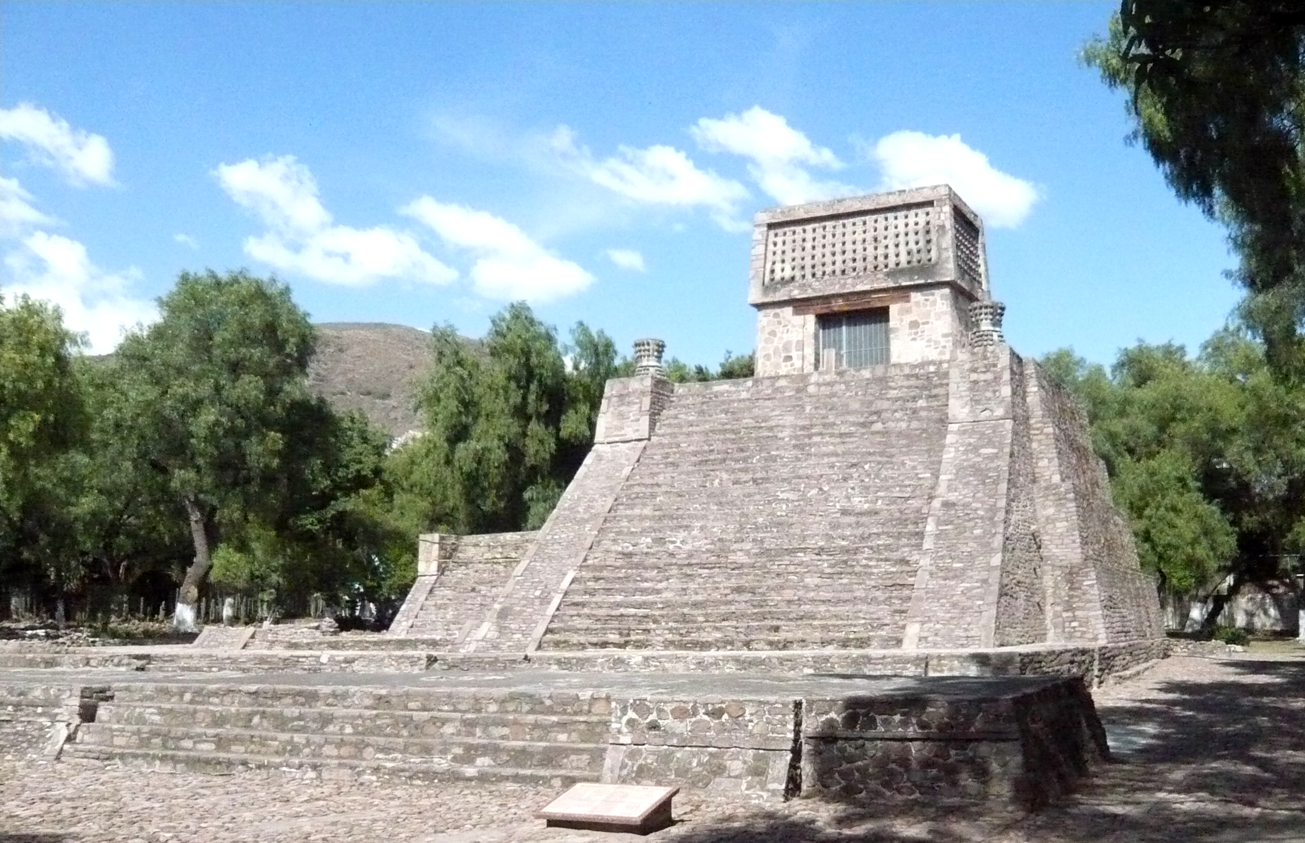 The Aztec Pyramid at St. Cecilia Acatitlan, Mexico State. Looking North.